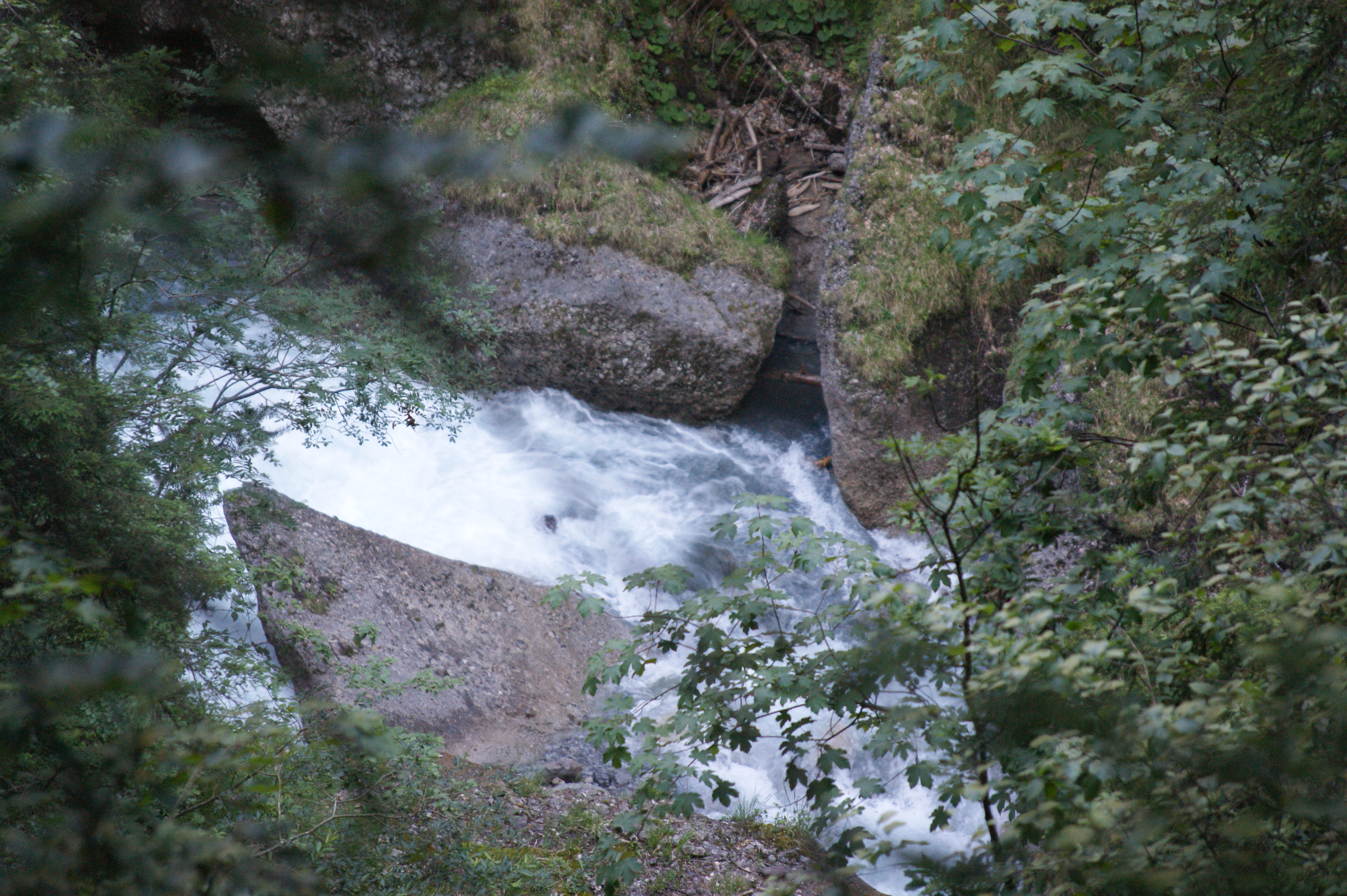 The Mengschlucht is a gorge in the municipality of Nenzing in Vorarlberg, Austria. The Mengschlucht is flowed through by the Meng and was formed mainly during the last ice age. Next to and in the gorge is the Gamperdonaweg. The street is only accessible for authorized persons and partially only single lane. There is a ban on bicycles.